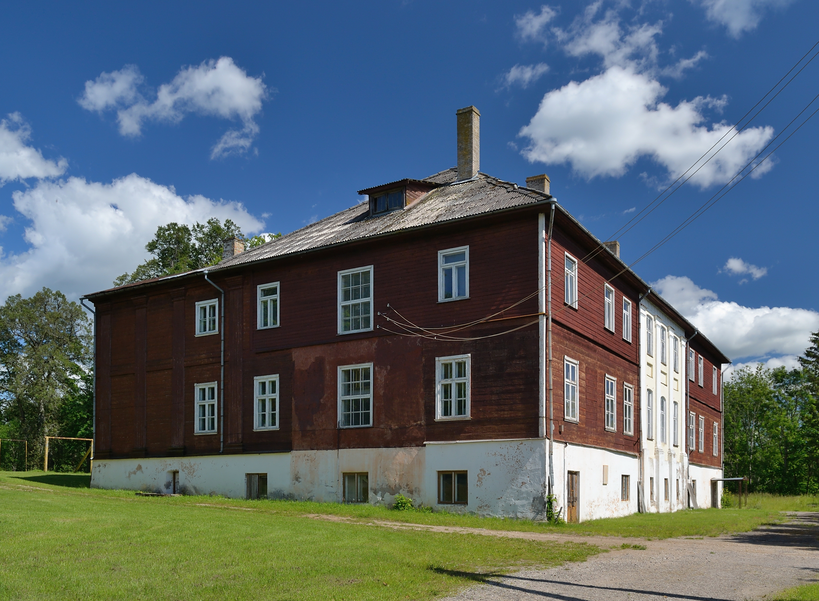 Kuigatsi manor main building